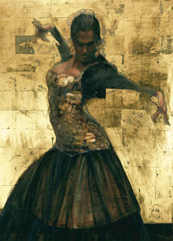 Finished painting following a series of preparatory studies. Oil and gold leaf on glass and canvas. This image was subsequently used for a book jacket and a music cd cover as well as being produced as a poster print.